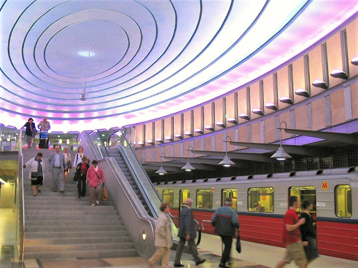 The Warsaw metro station "Plac Wilsona"taken at April 17, 2005 with a Canon PowerShot A60.